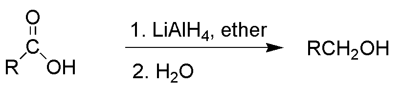 Alcohol from carboxylic acid via reducation